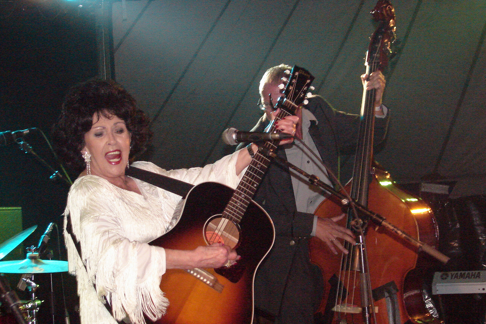 Wanda Jackson & the Seatsniffers